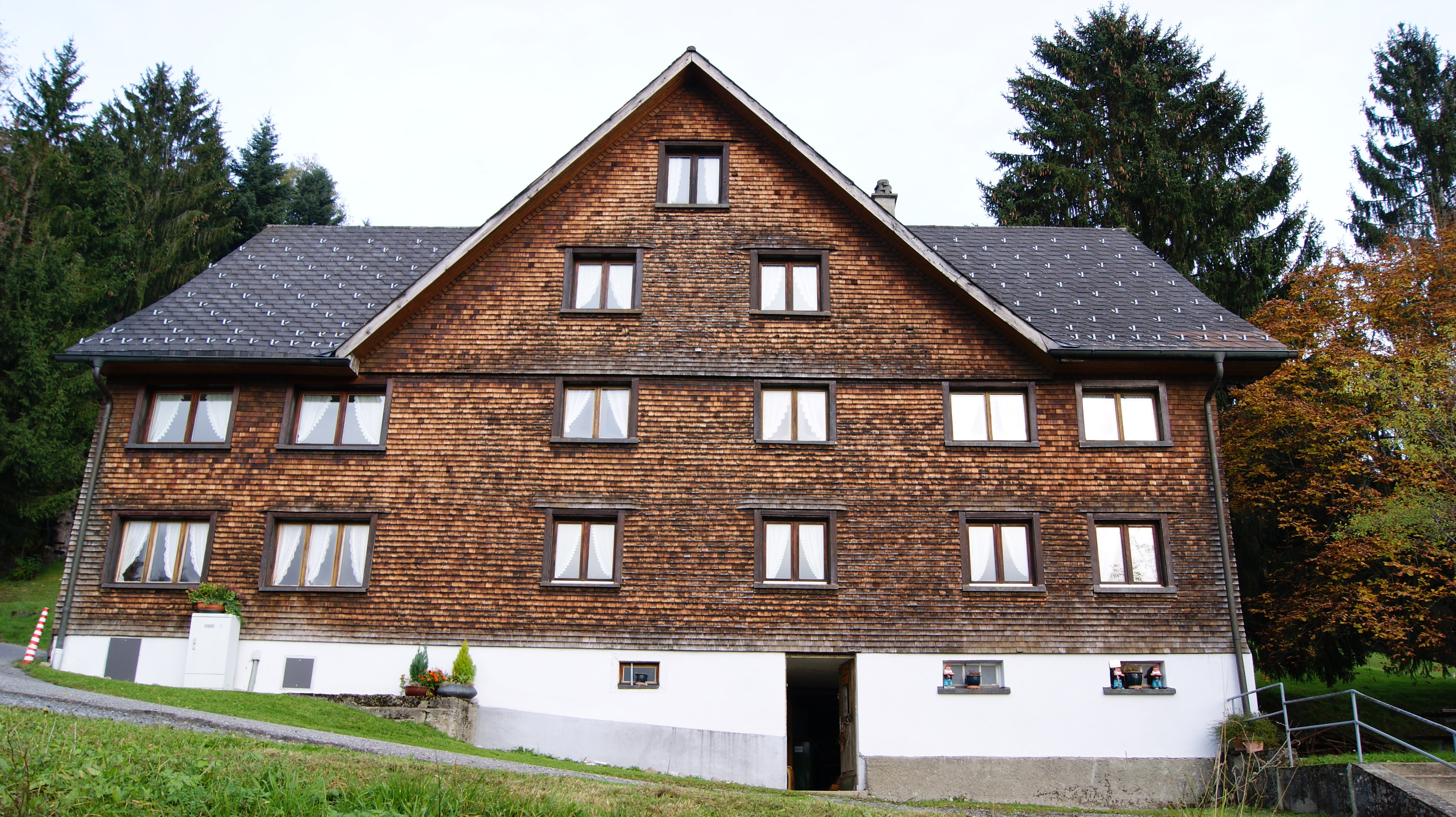 Bad Ingruene in Schwarzach, Vorarlberg, Austria. Former bathhouse with sulfur springs, inn and cottage. View from the west.